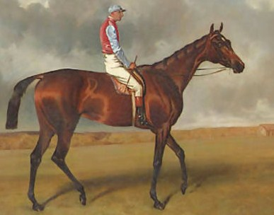 Painting (detail) of British racehorse Miss Jummy c1886 by John Arnold Alfred Wheeler (1821-1903). PD as artist dead for 109 years.